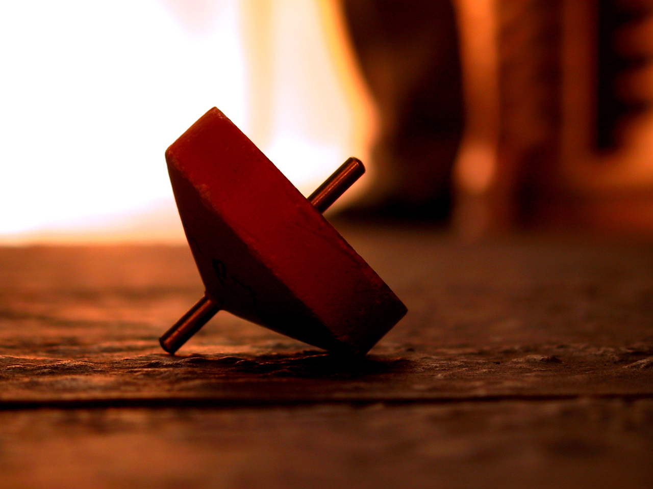 Japanese top